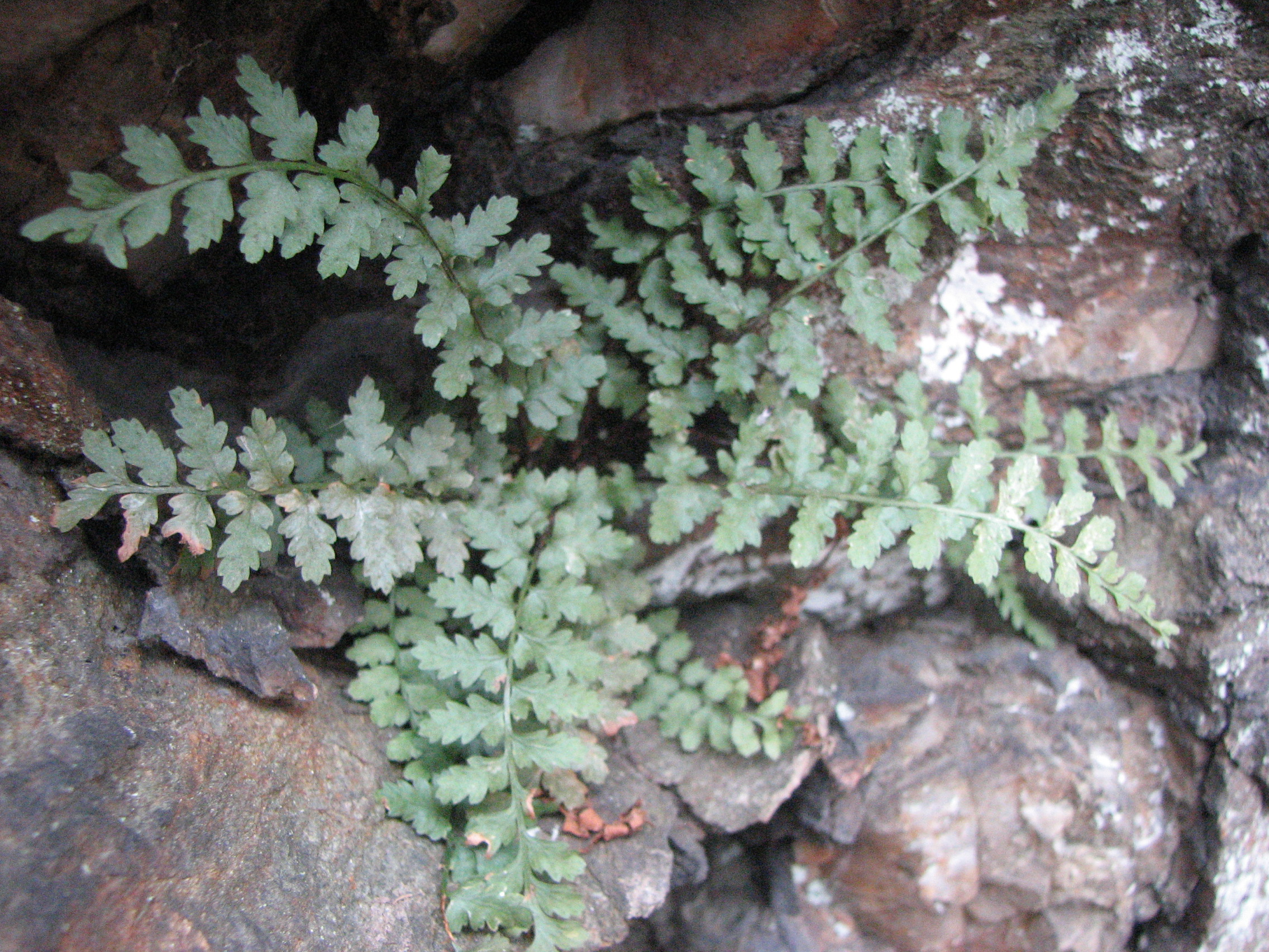 A Bradley's spleenwort (Asplenium bradleyi), growing in a rock crevice at Tucquan Glen, Lancaster County, Pennsylvania.